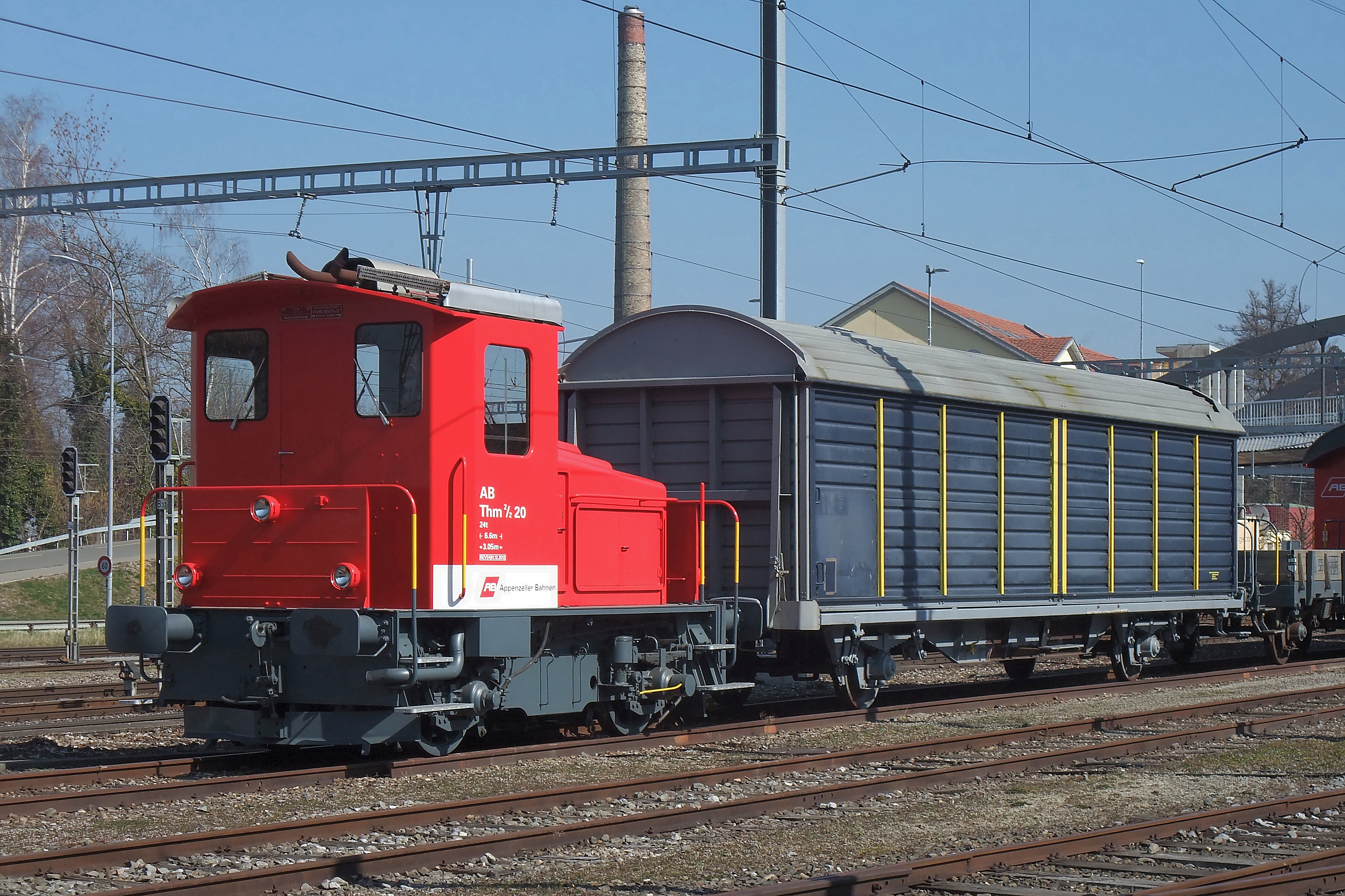 This rail tractor built in 1962 was acquired 2006 by the Appenzell Railway. In 2012 it was repainted. It kept the original designation Thm 2/2 instead of the now correct Tmh 2/2. Rorschach station, Switzerland, March 12, 2014.